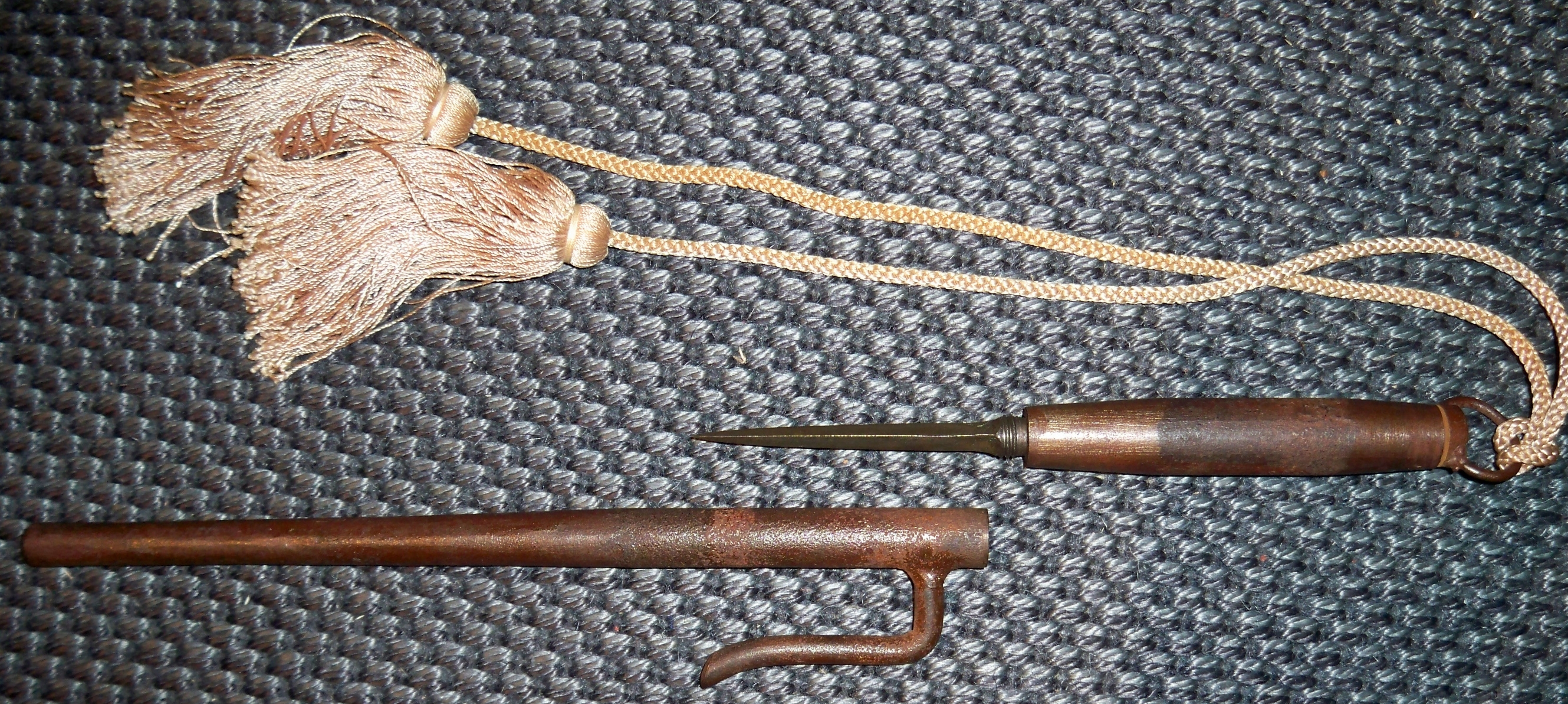 Japanese (samurai)iron bar weapon "jutte" with a hidden spear "yari" in the handle.